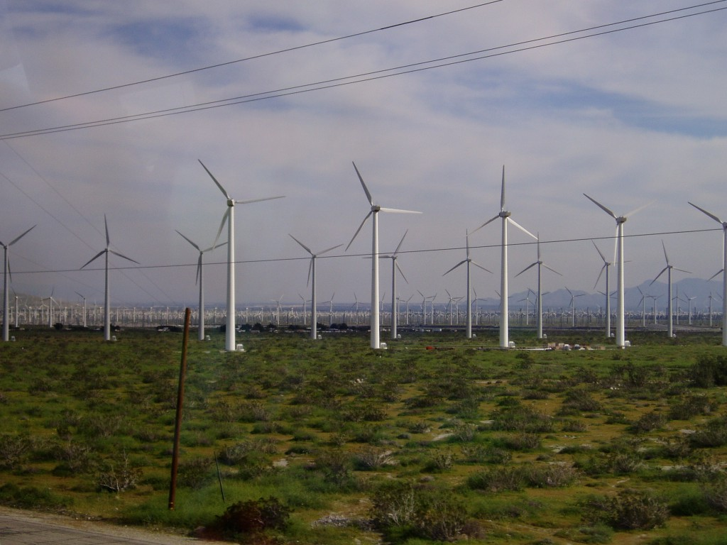 Beautiful countryside in southern California.Windmills